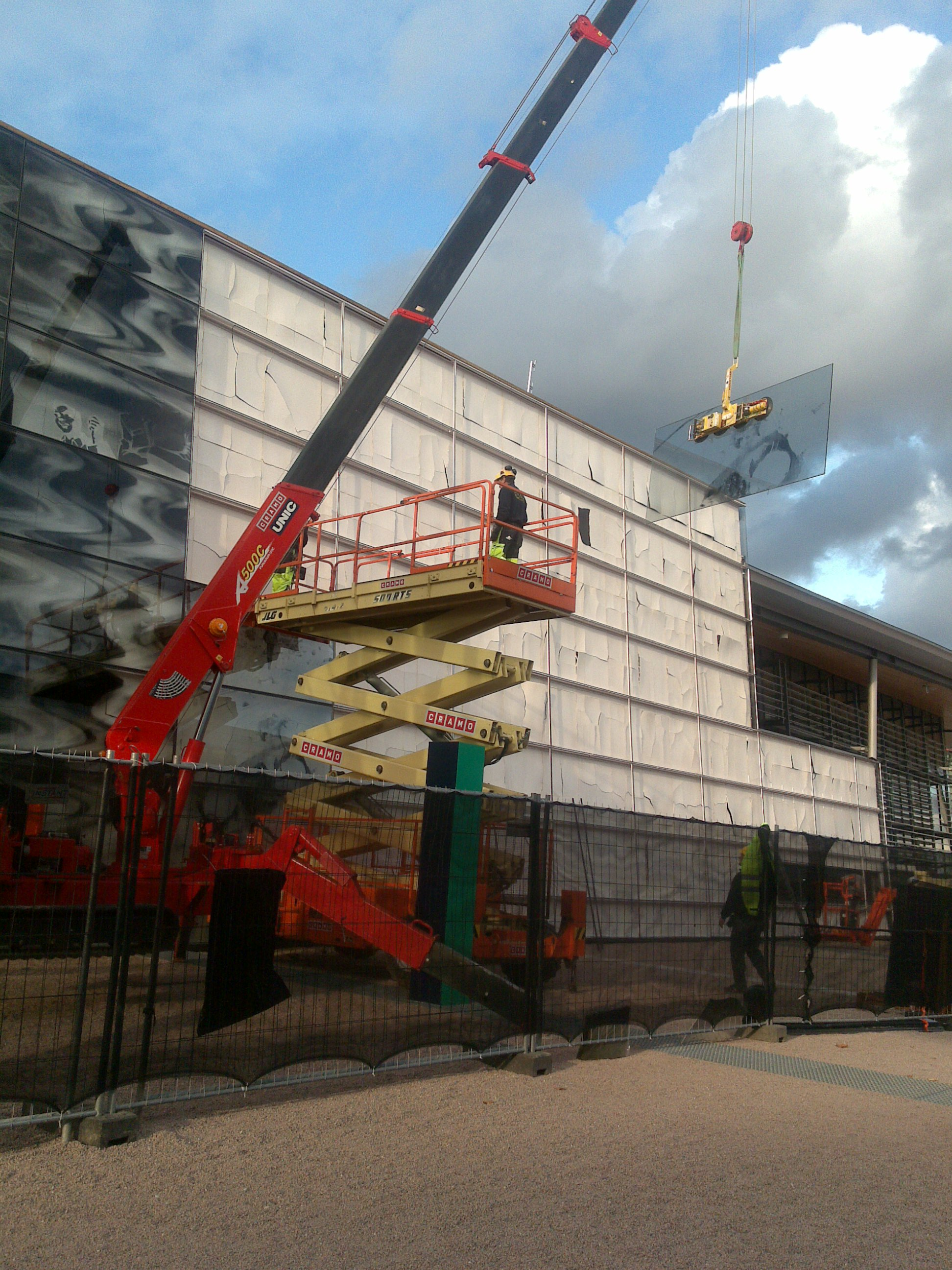 Facade glass element being attached to wall at Telenor headquarter, Fornebu, Norway